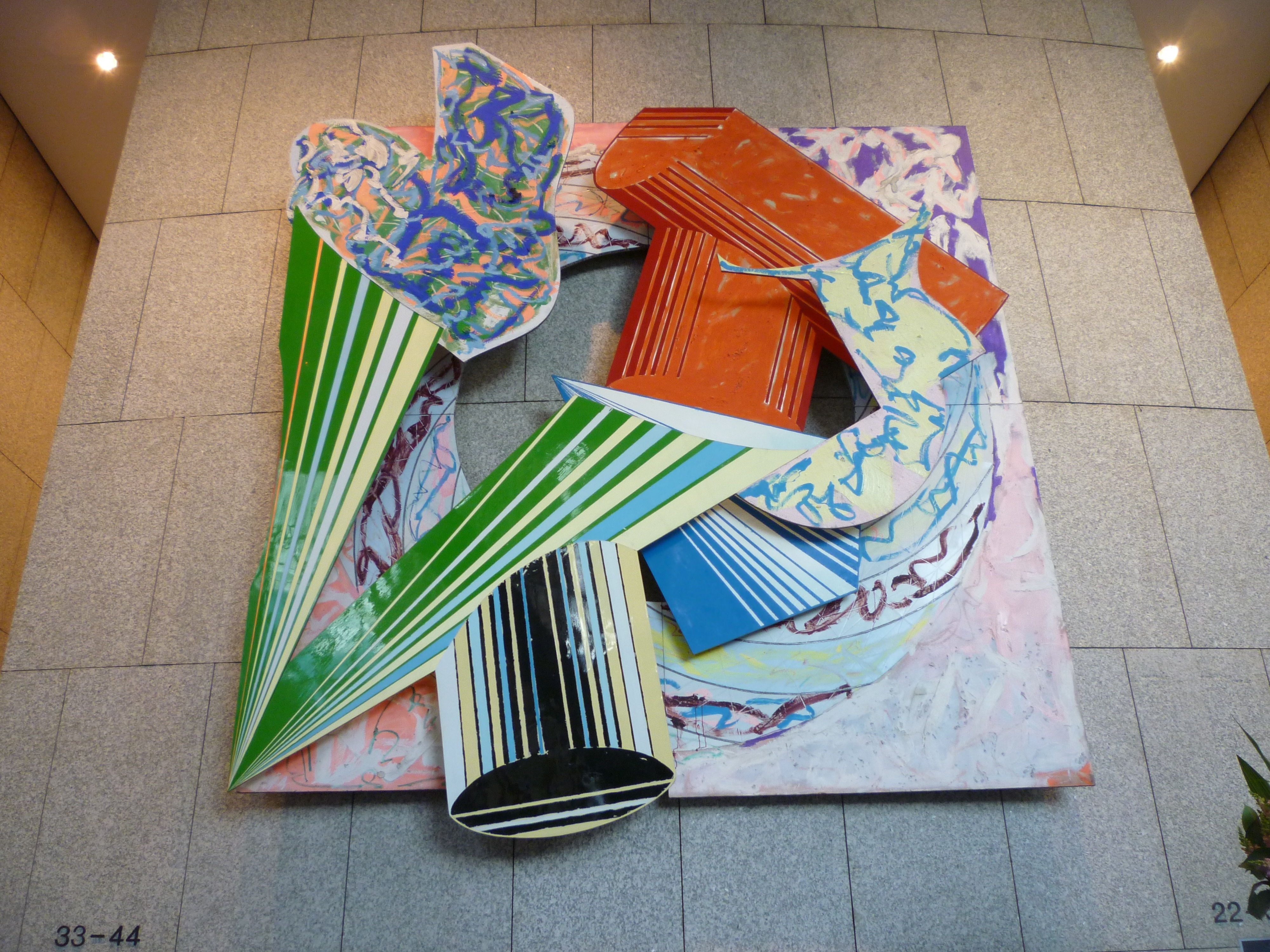 Part of a three part sculpture by Frank Stella in Grosvenor Place, Sydney (!984-87)